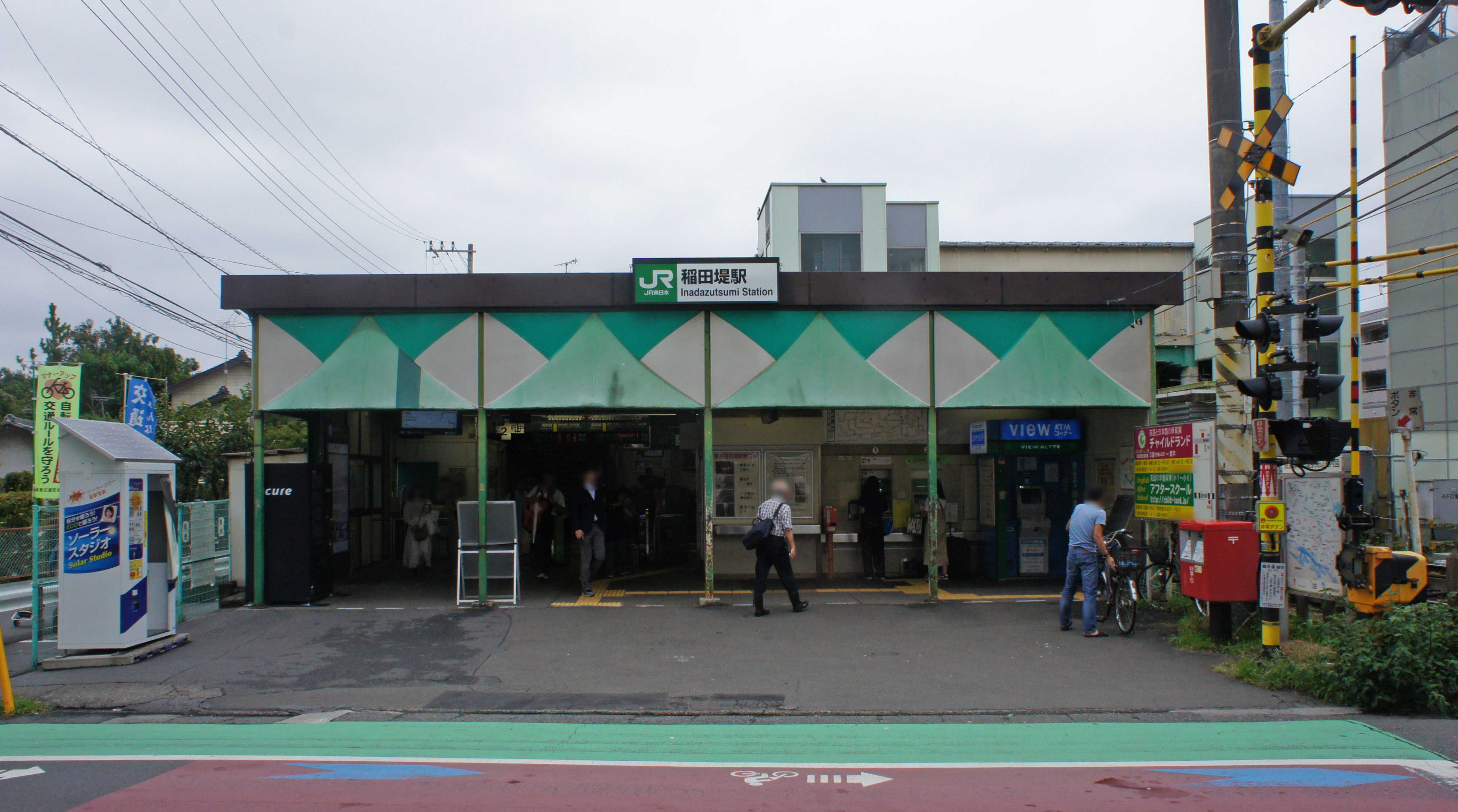 Station building of JR Nambu-Line Inadazutsumi Station